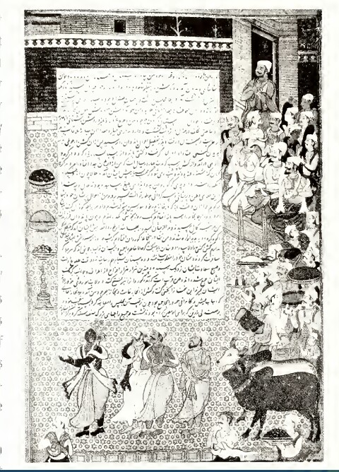 Udhyoga parwa